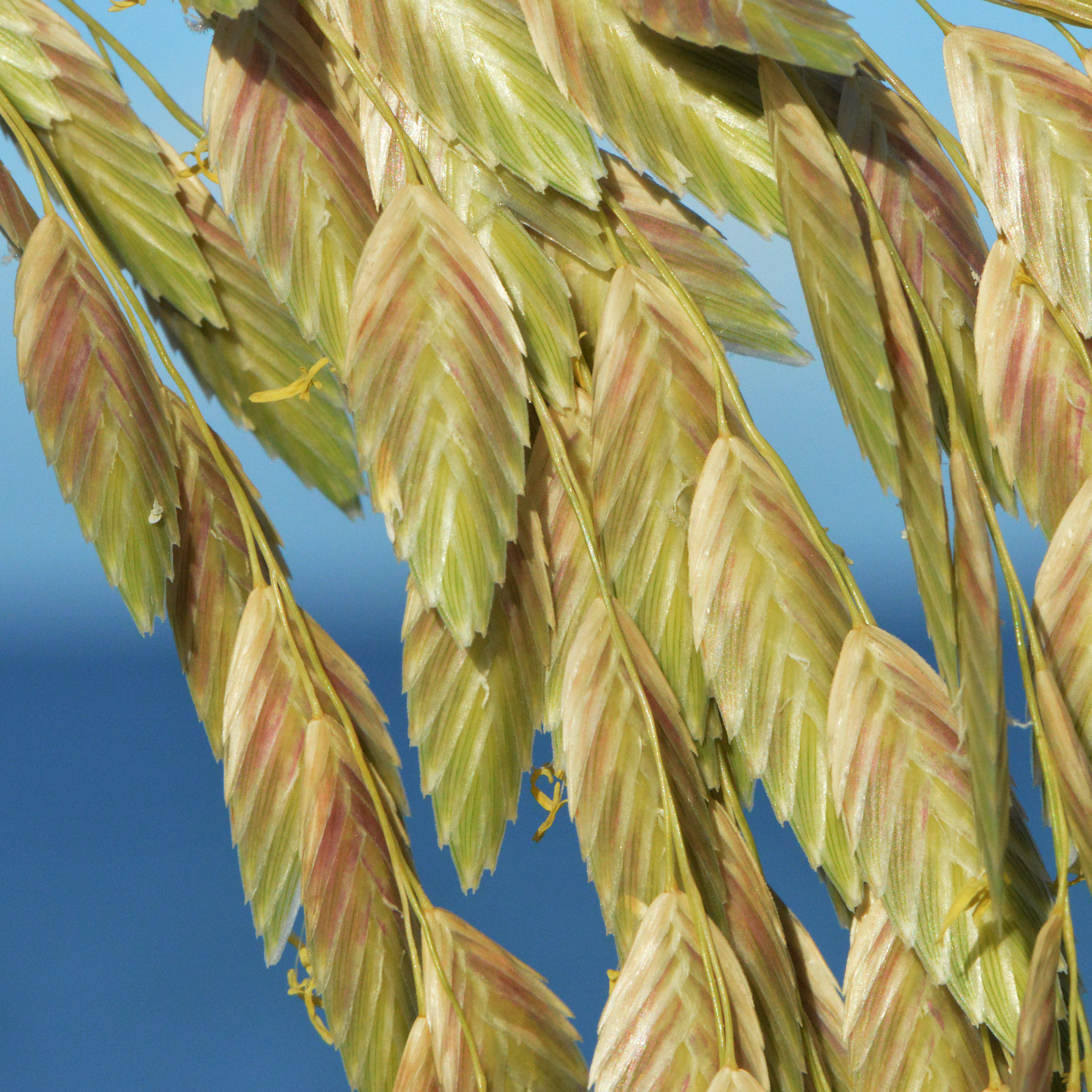 Sea Oats, Uniola paniculata, Sanibel Island, FL, USA